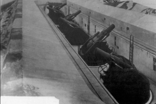 Photograph showing six 10-inch RML high-angle coast-defence guns at Spy Glass Battery, Gibraltar.